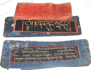 The text is ,” Zhang-zhung skad-du,” which means ,” In the language of Zhangzhung.,”